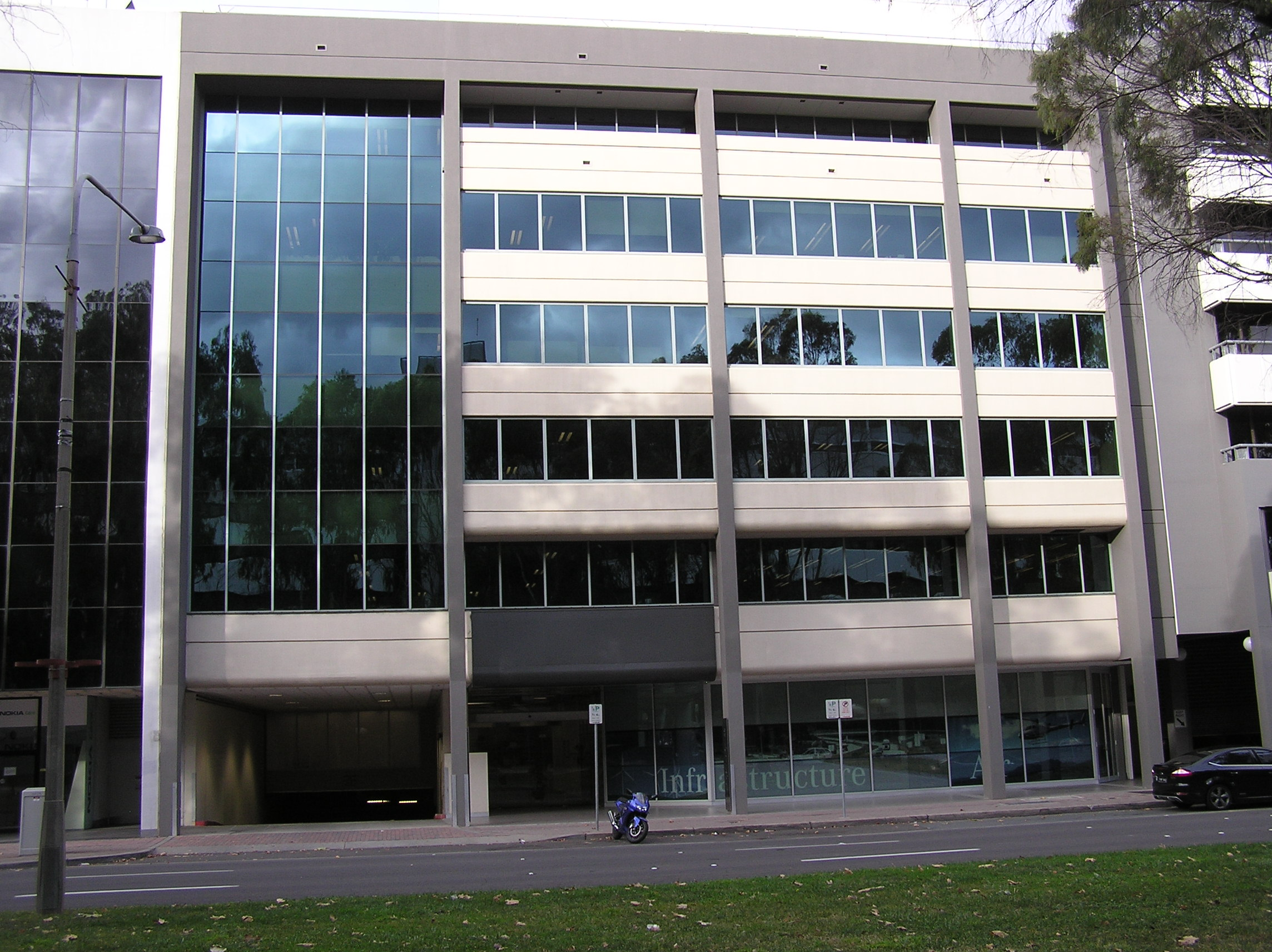 62 Northbourne Avenue Canberra, the home of Australian Transport Safety Bureau